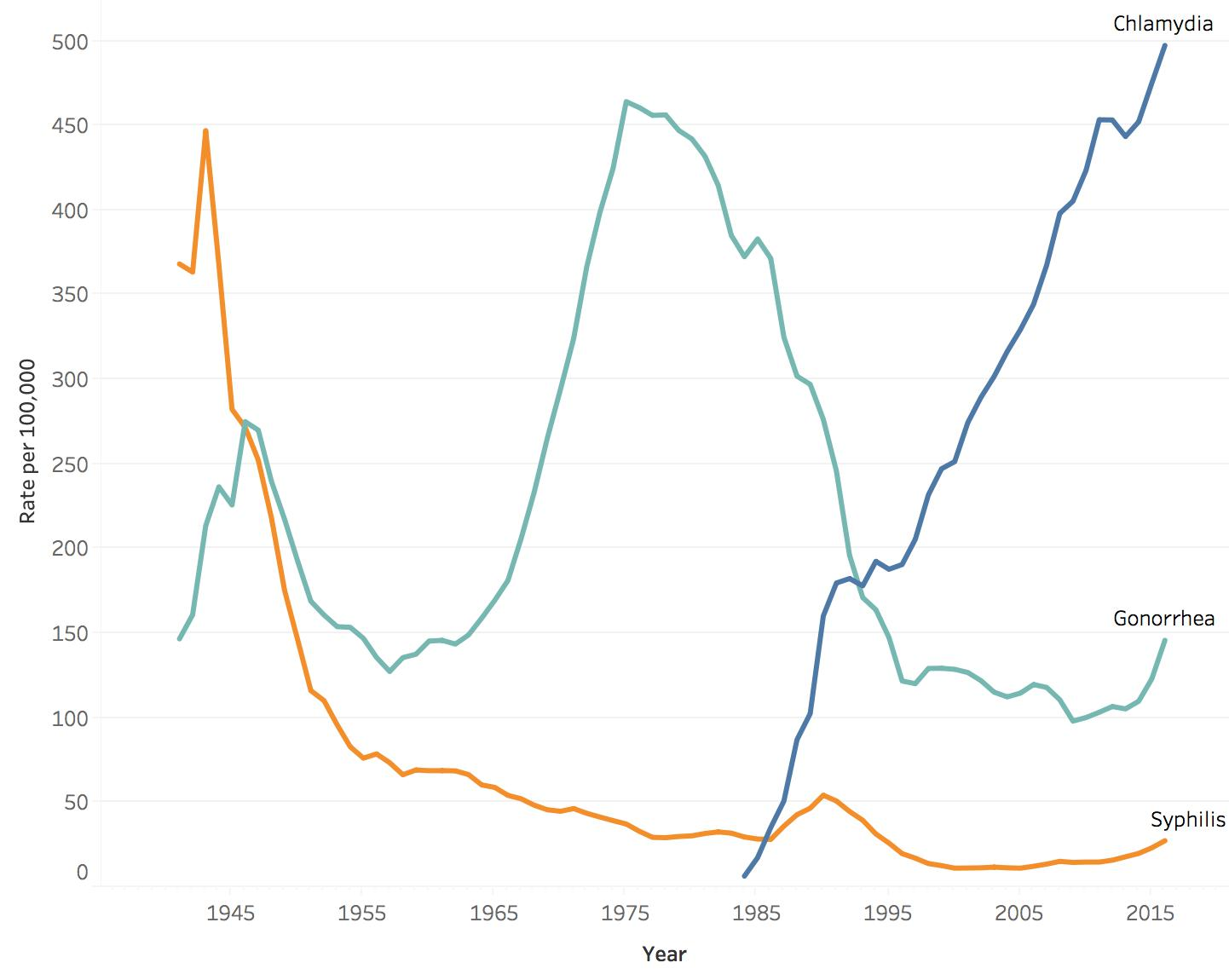 United States STD rates per100,000 from 1941-2016 from Table 1. Sexually Transmitted Diseases — Reported Cases and Rates of Reported Cases per 100,000 Population, United States, 1941–2016[1], Centers for Disease Control and Prevention, September 26, 2017